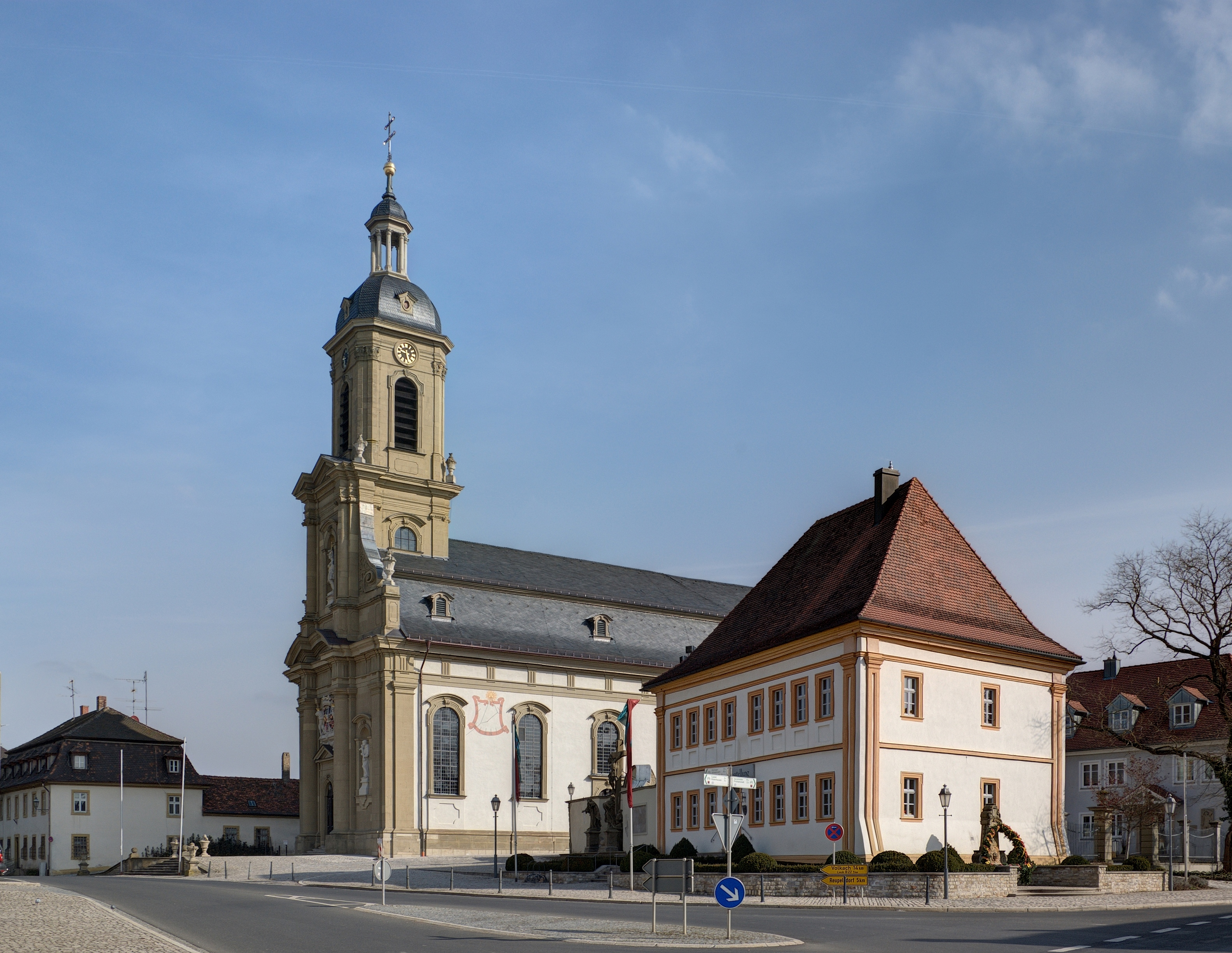 Germany, Wiesentheid, parish church St. Mauritius and manse